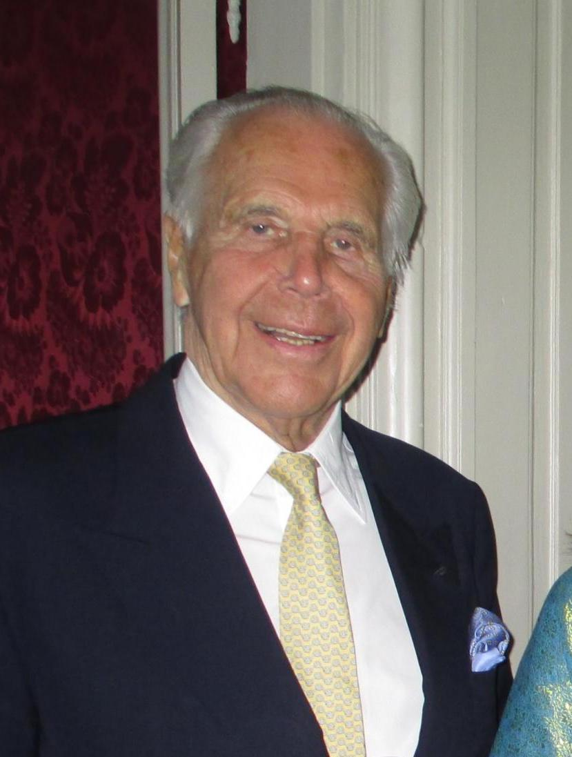 Anders WallPlace: Ulriksdal Palace Theater, Solna, Sweden